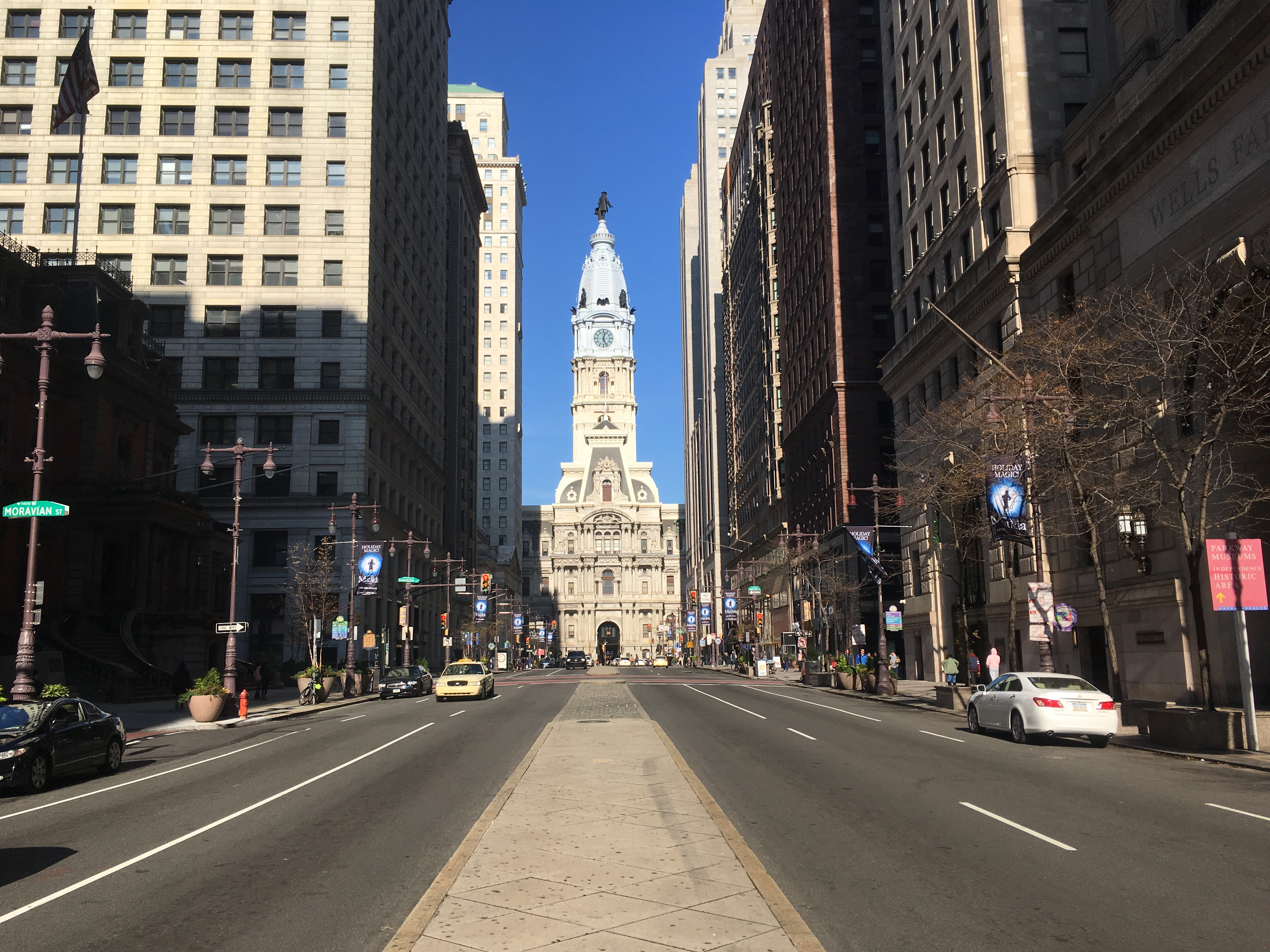 Northbound Pennsylvania Route 611 (Broad Street) past the intersection with Walnut Street in Philadelphia, Pennsylvania, with Philadelphia City Hall visible in the distance